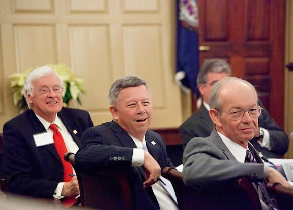 The University of Virginia